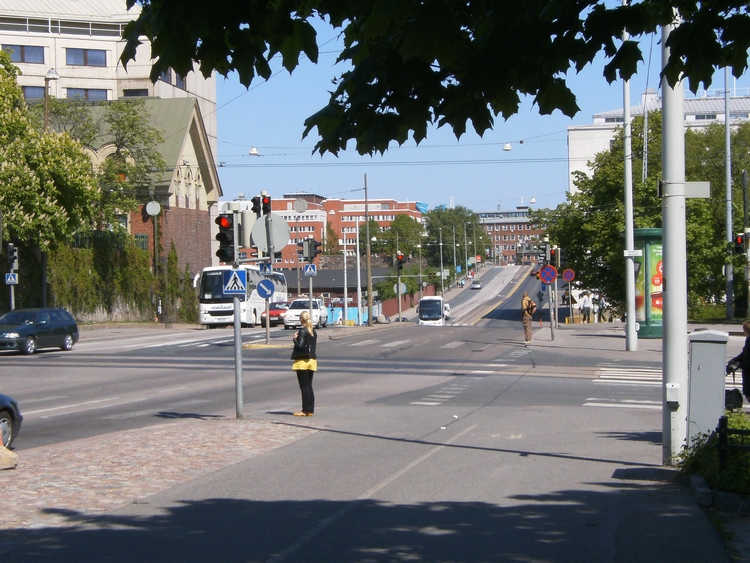 The Sturenkatu, Helsinki, Finland, a view from the sidewalk